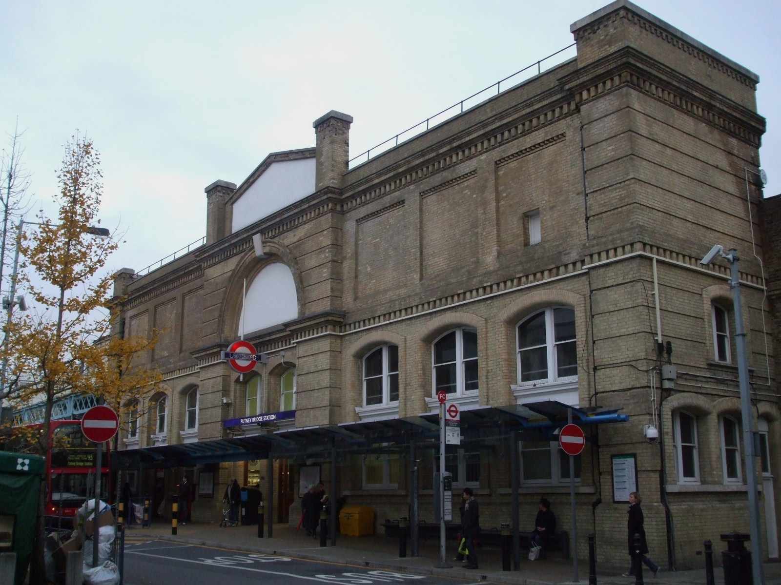 Putney Bridge tube station building